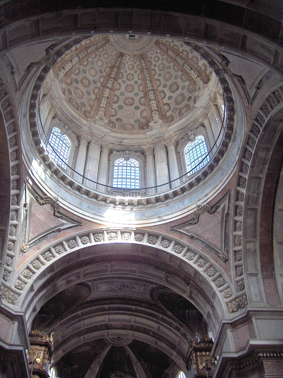 Cupola of the church in the Mafra National Palace; Mafra, Portugal